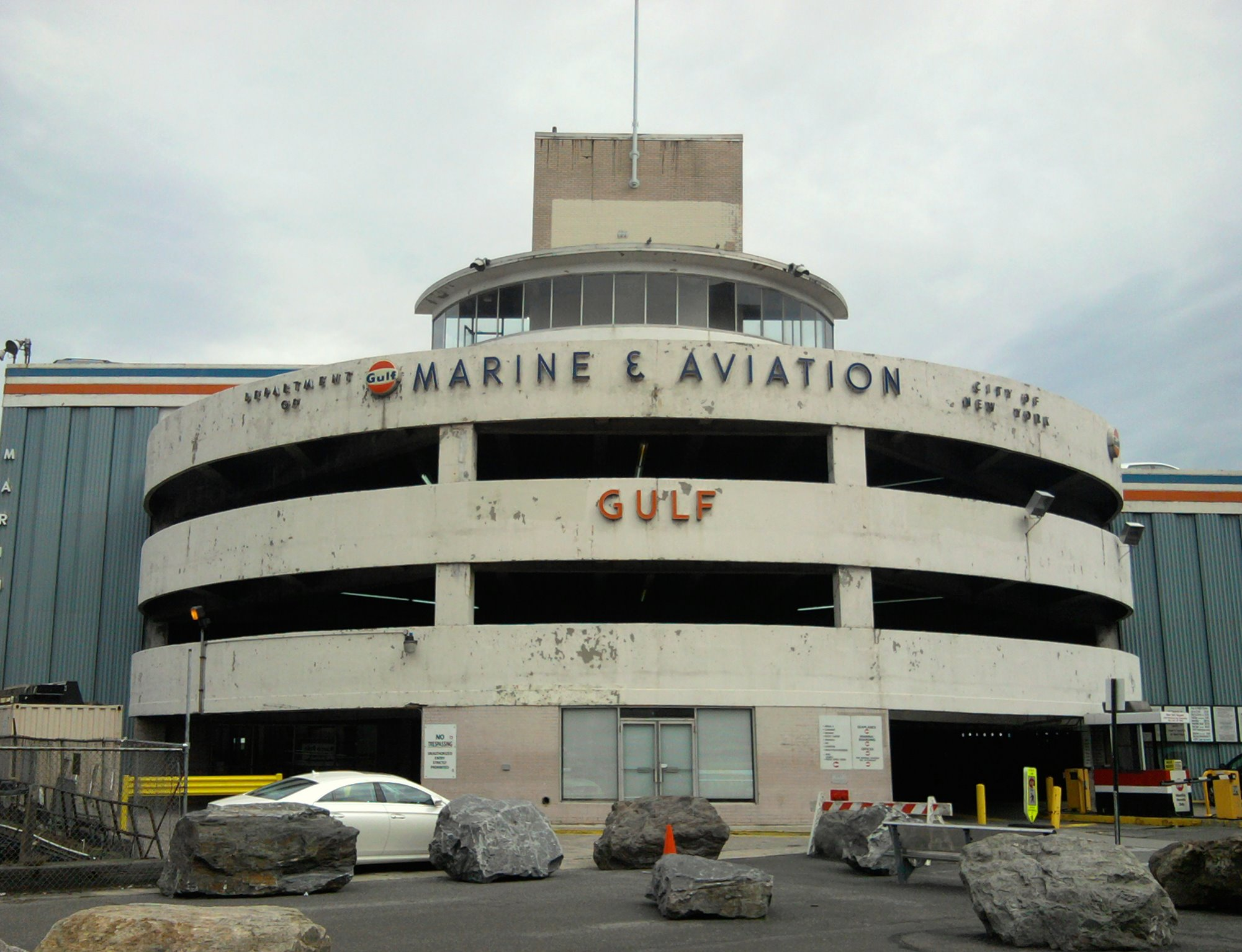 Looking southeast at former ferry terminal on a cloudy day.